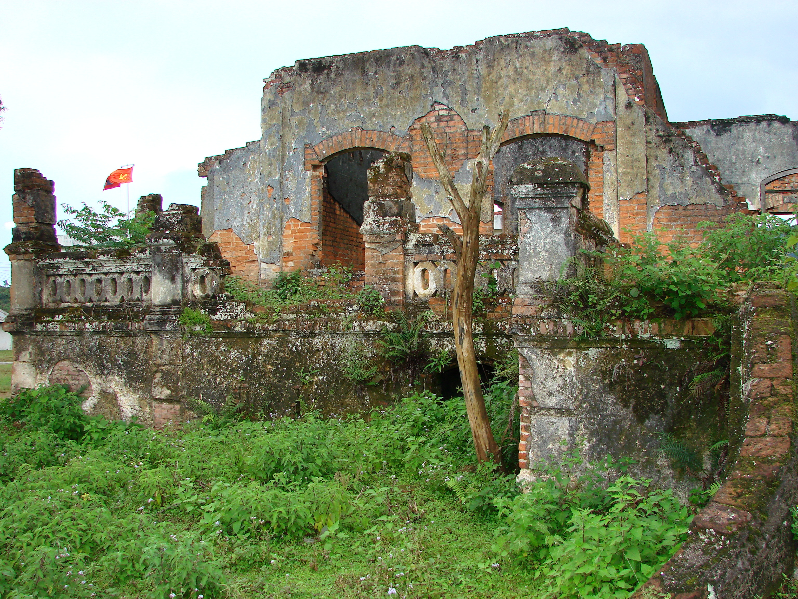 Ruins of French hospital in Muang Khoun, former capital of Xieng Khuang province, destroyed by US bombing in the late 1960s. June 2009.